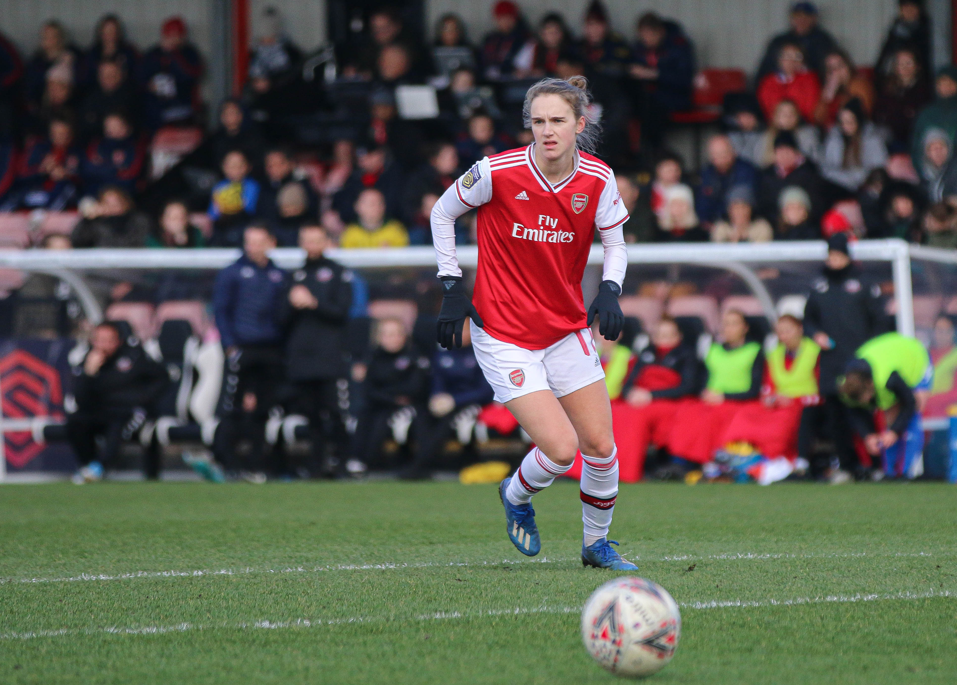 Arsenal WFC – Lewes L.F.C., 23 February 2020